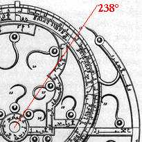 The Astrolabe.